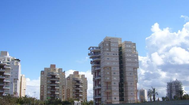 Part of 'Psagot Yam' neighborhood, with Kiryat Motzkin in the background.